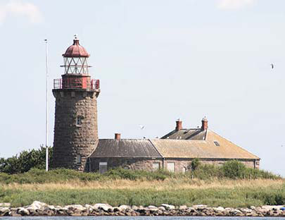 Nordre Rønner Fyr is the lighthouse on Spirholm, the main island of Nordre Rønner, due north of Læsø Island, Kattegat, Denmark